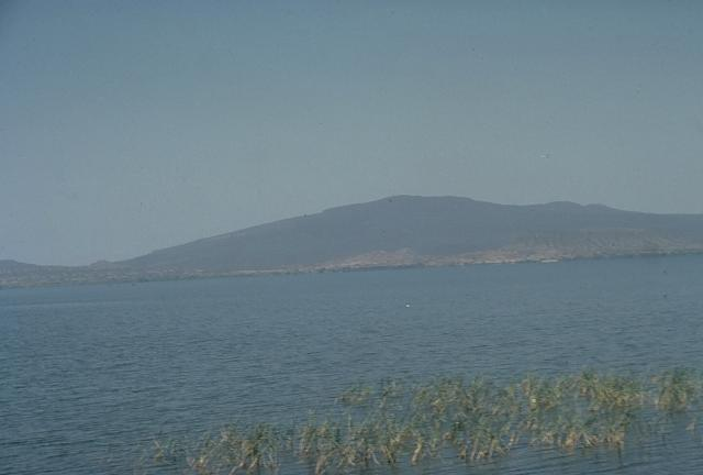 Lake Awasa, Chabbi volcano (in the center) lies on the southeast rim of Corbetti Caldera (low saddle at the upper left corner of photo).